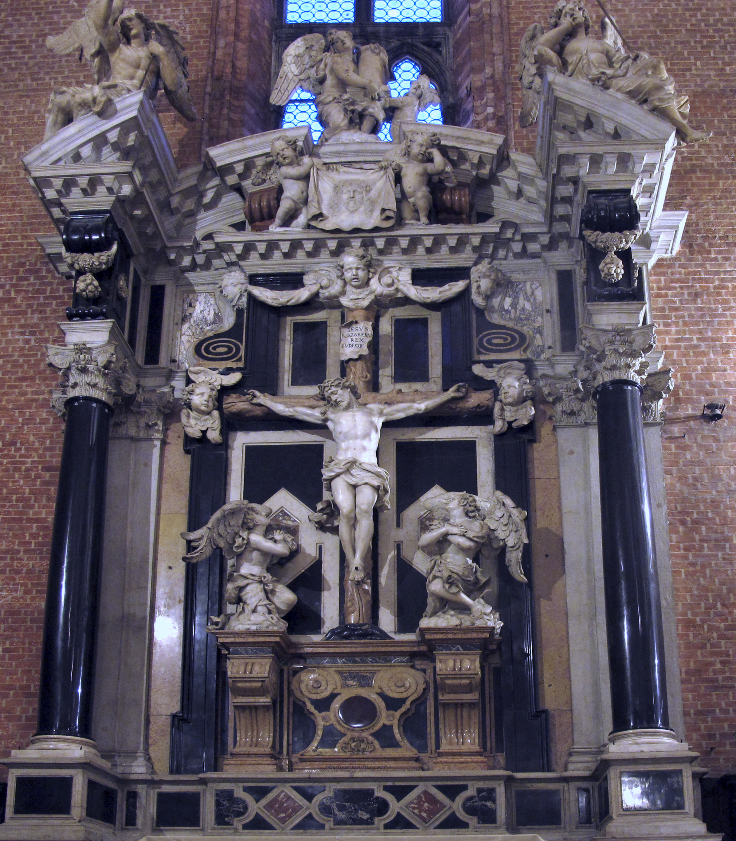 Giusto Le Court, altar in Chiesa dei Frari, Venice